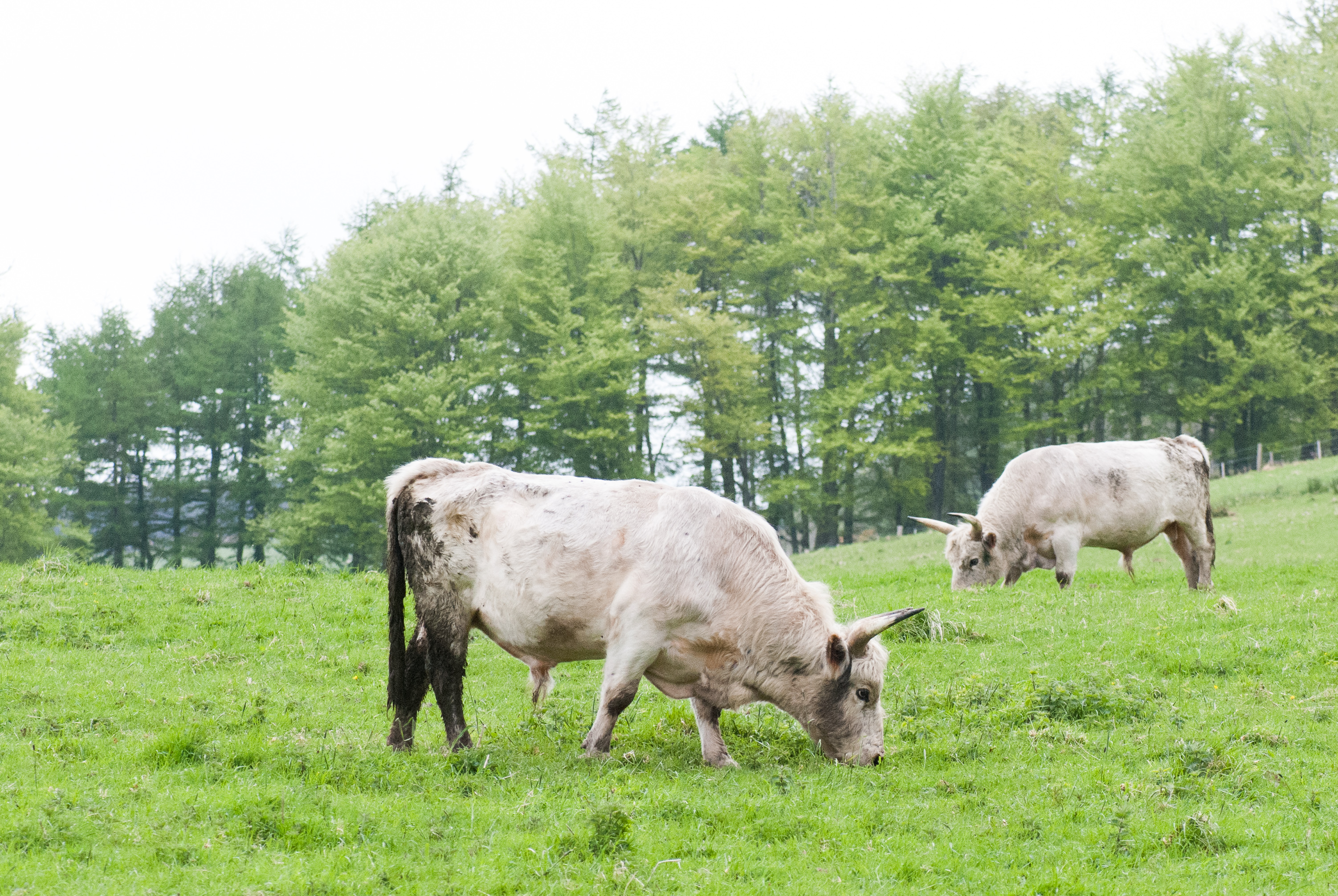 Chillingham Castle, Northumberland, England